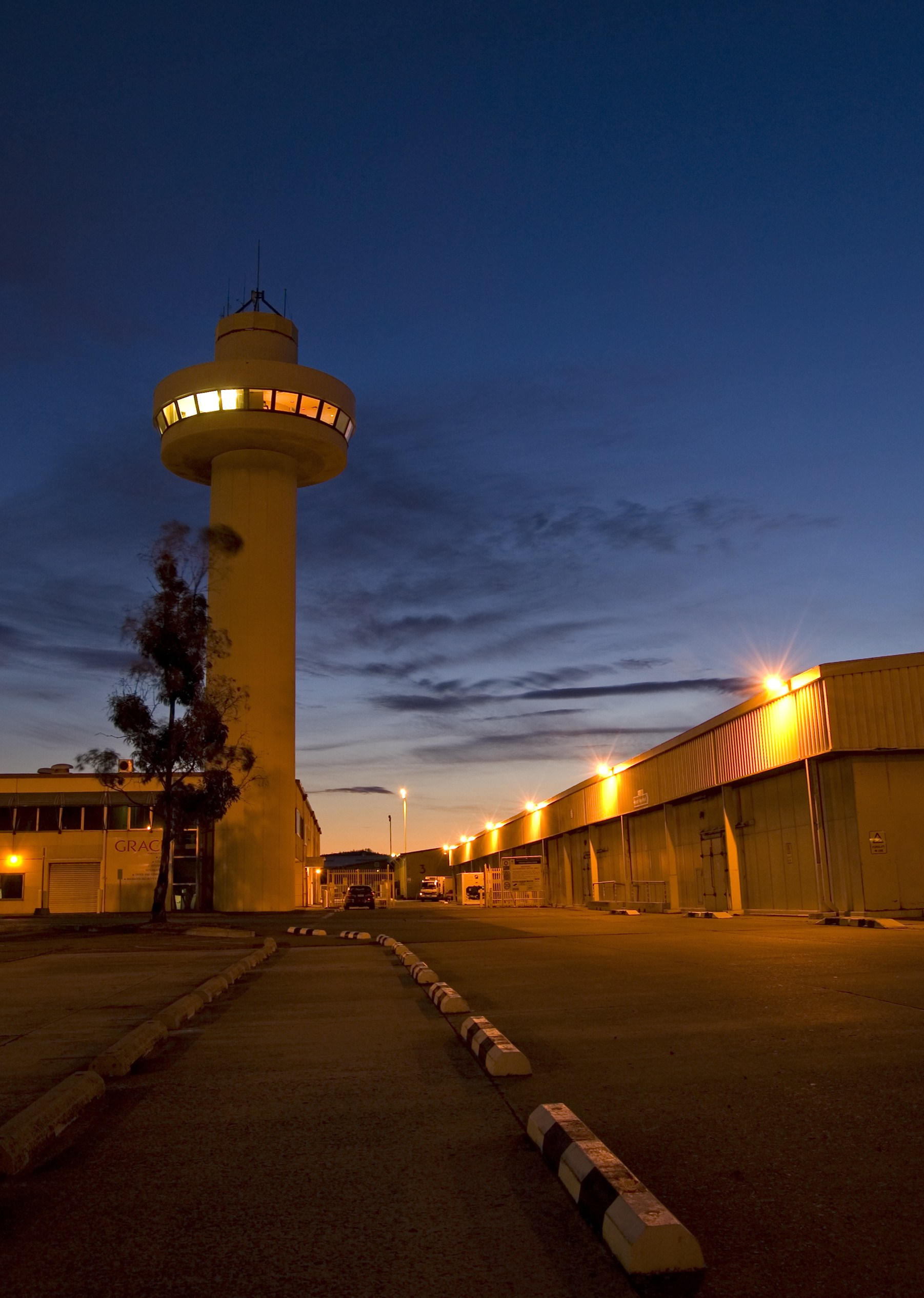 Hobart "Port Tower Building", and dock complex, at dawn.